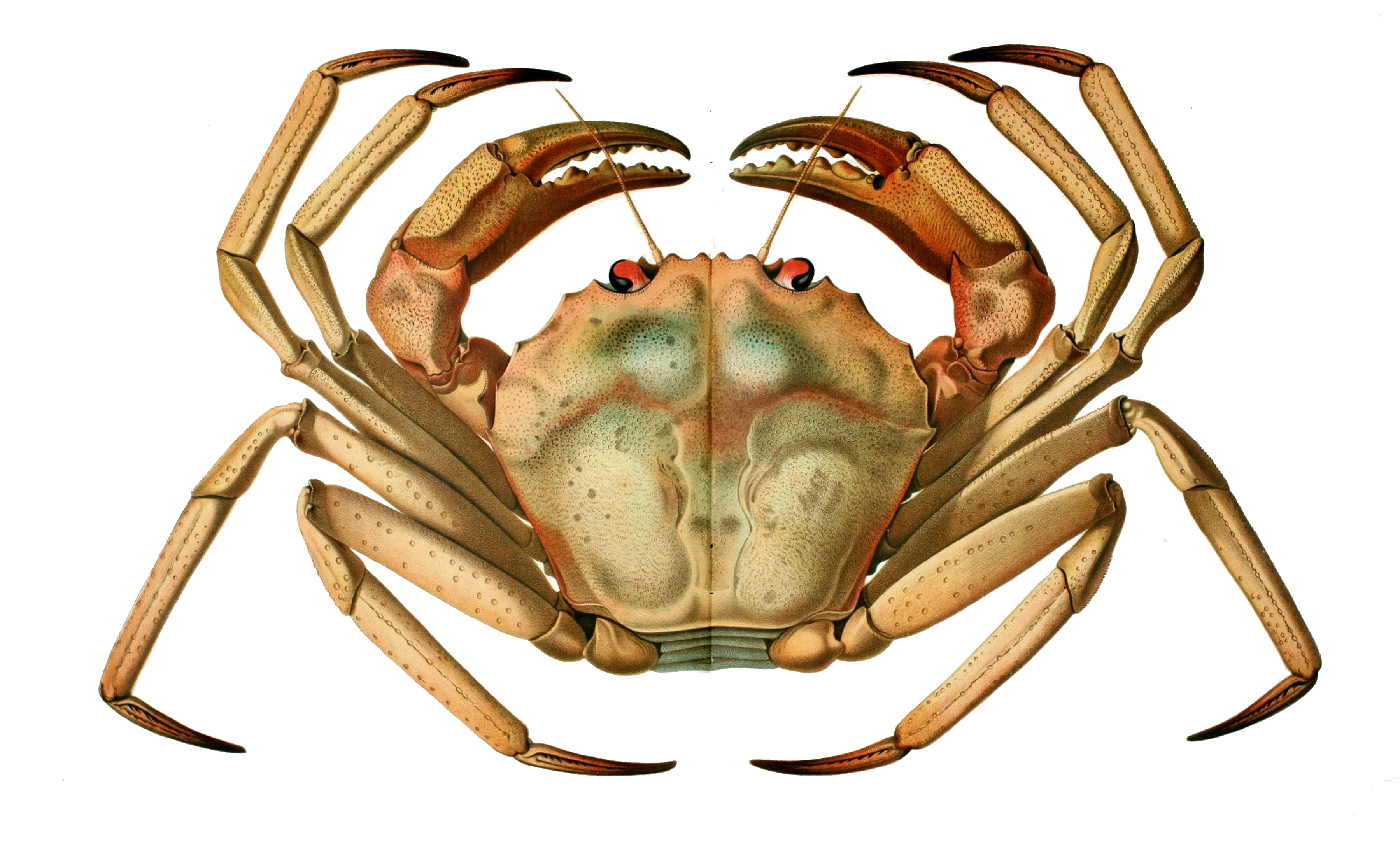 Chaceon affinis